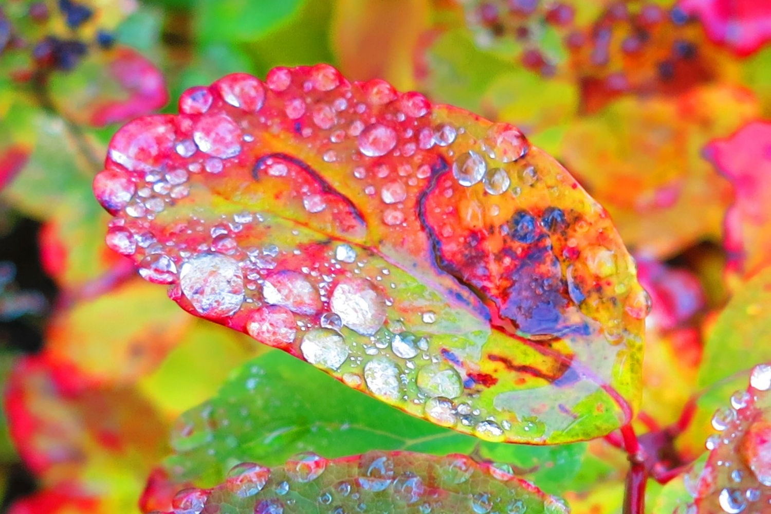 Spiraea betulifolia leaf at the beginning of October (Hyvinkää, Finland)